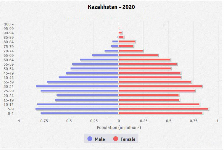 A plot of the population pyramid of Kazakhstan in 2020